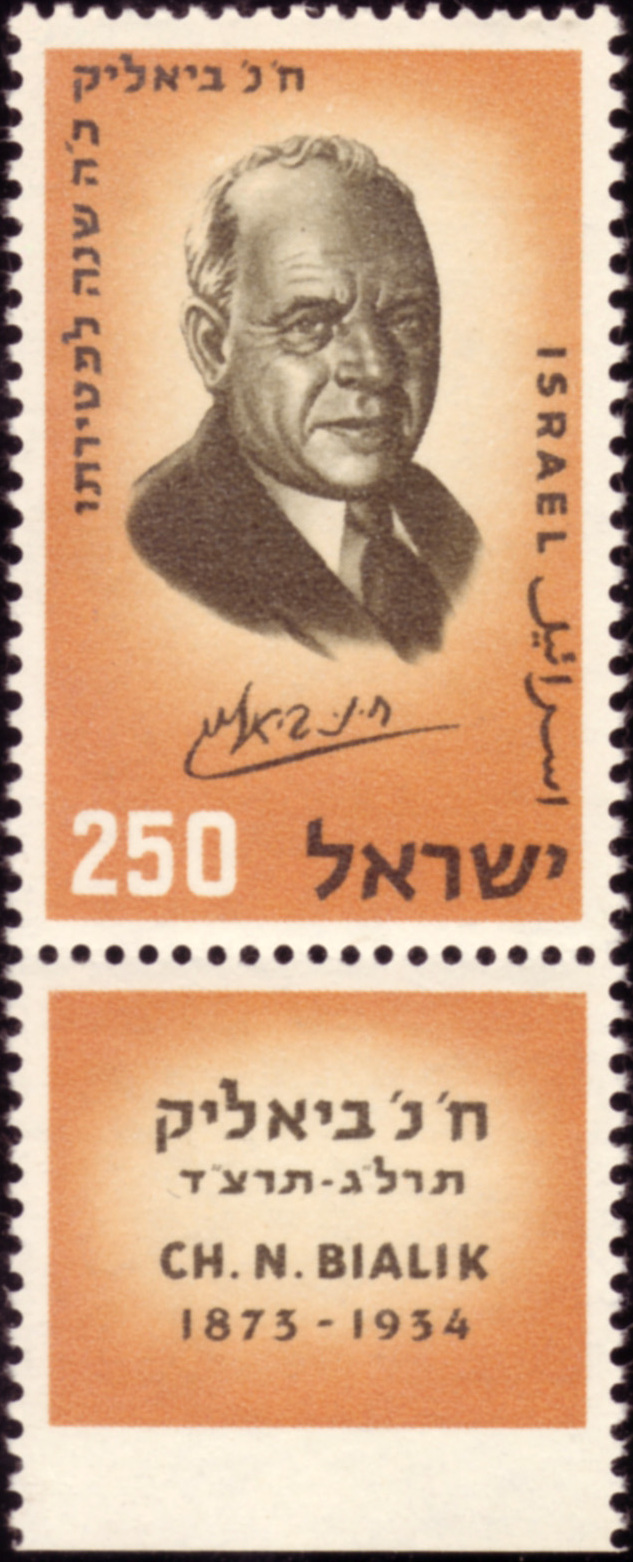 An Israeli stamp commemorating 25 years of the departure of the poet Hayyim Nahman Bialik